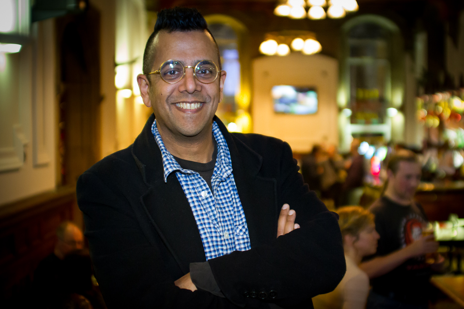 Simon Singh during his talk about his book "The Simpsons and their Mathematical Secrets"